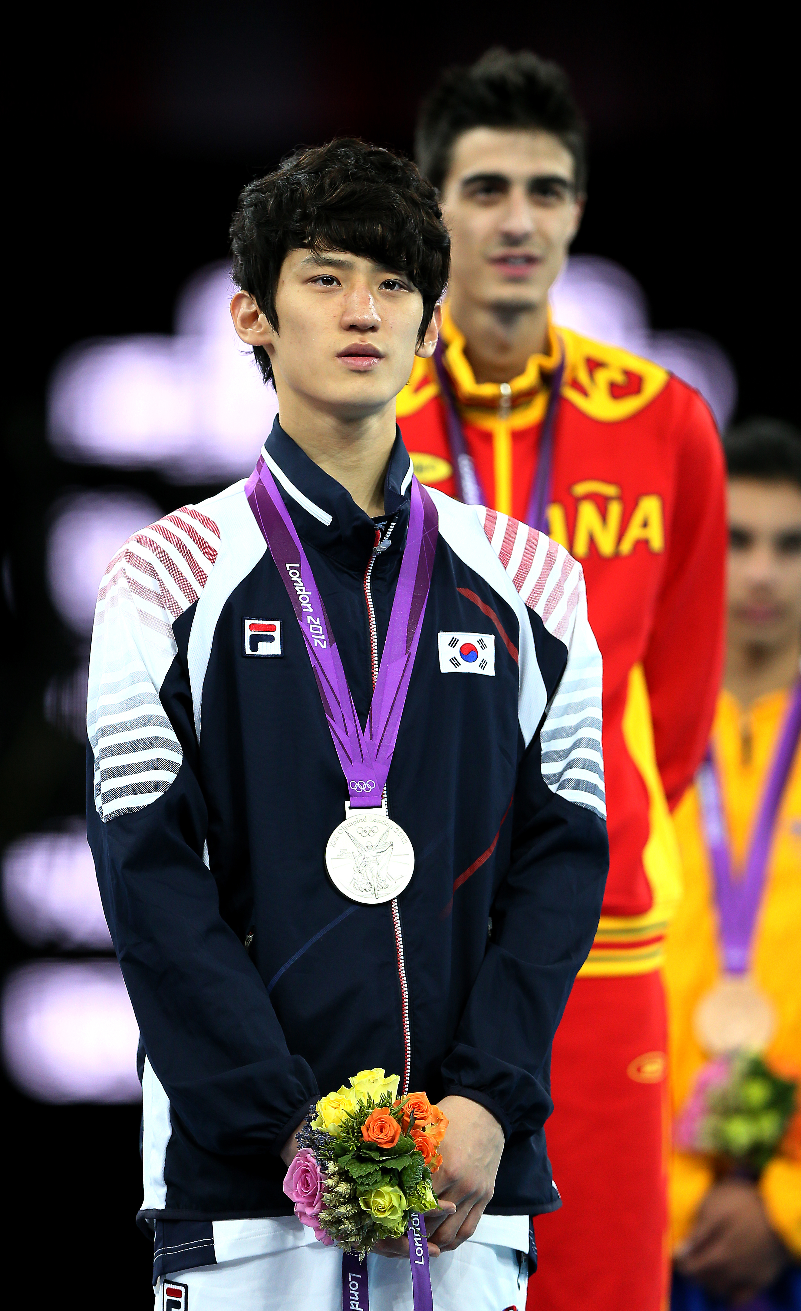 2012 London Olympic Games Korean Taekwondo Lee Dae-hoon won silver medal in men's -58kg at the ExCel Arena. 2012.08.09 Photo by Korean Olympic Committee Ministry of Culture, Sports and Tourism Korean Culture and Information Service 2012 런던 올림픽 남자 태권도 -58kg 이대훈 은메달 획득 사진제공 - 대한체육회 문화체육관광부 해외문화홍보원